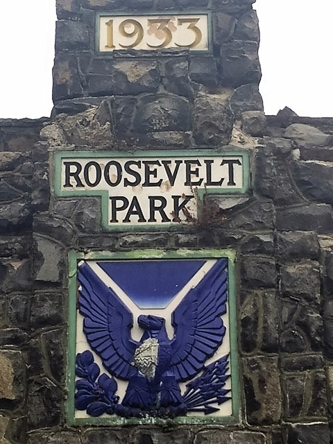 Detail of a stone monument marking the establishment of Roosevelt Park in Edison, New Jersey in 1933.